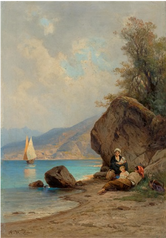 Southern Landscape with Figures